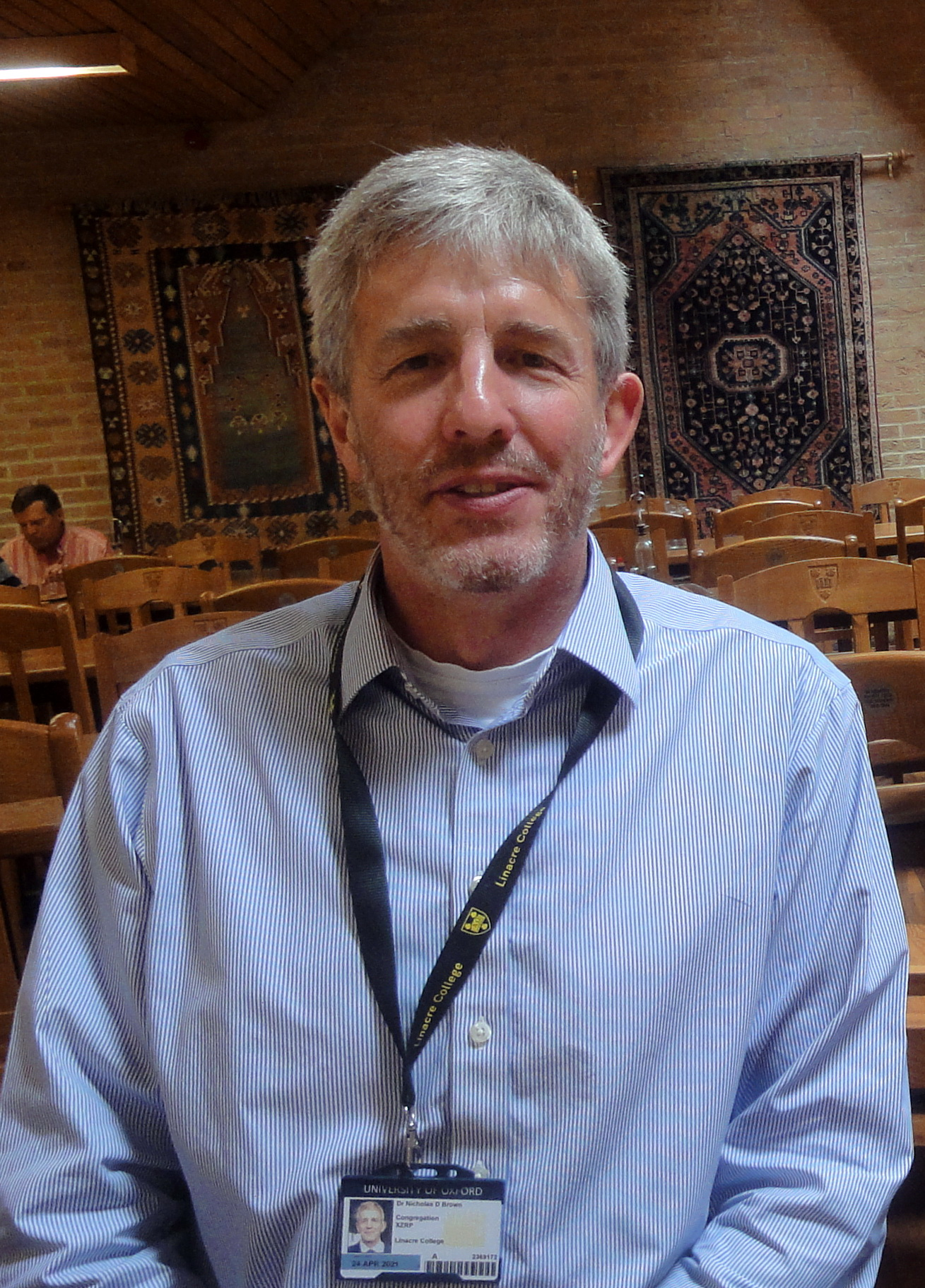 Nick Brown, Principal of Linacre College, Oxford, in the College's Dining Hall, Oxford, July 2019.